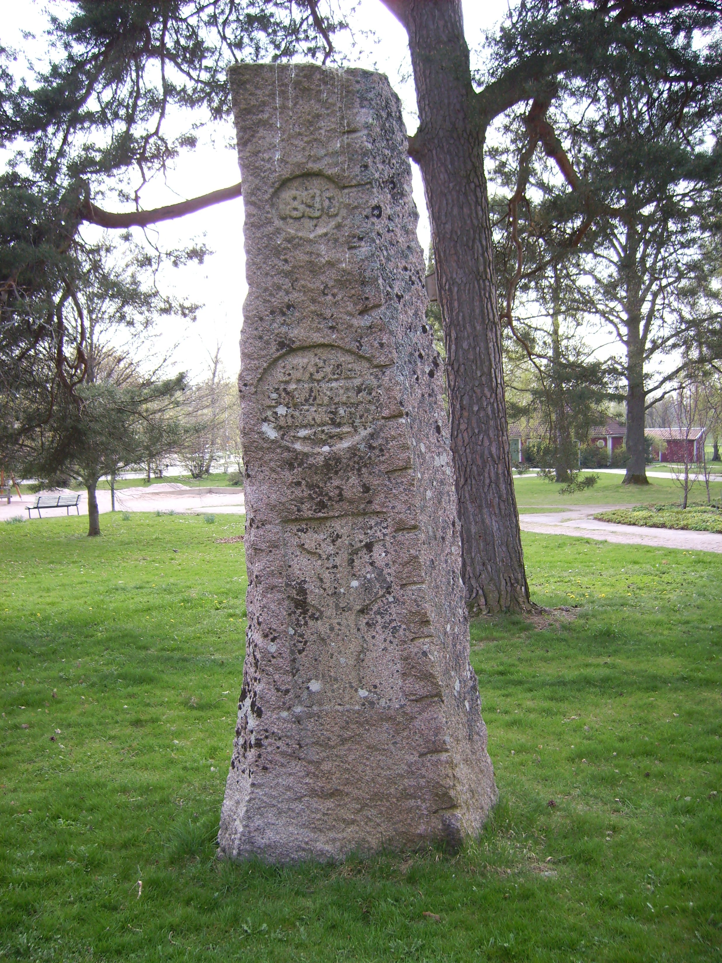 Photo by Harri Blomberg.